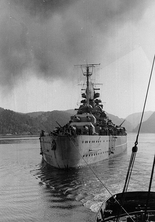 Tirpitz Norwegian waters in 1942-44.